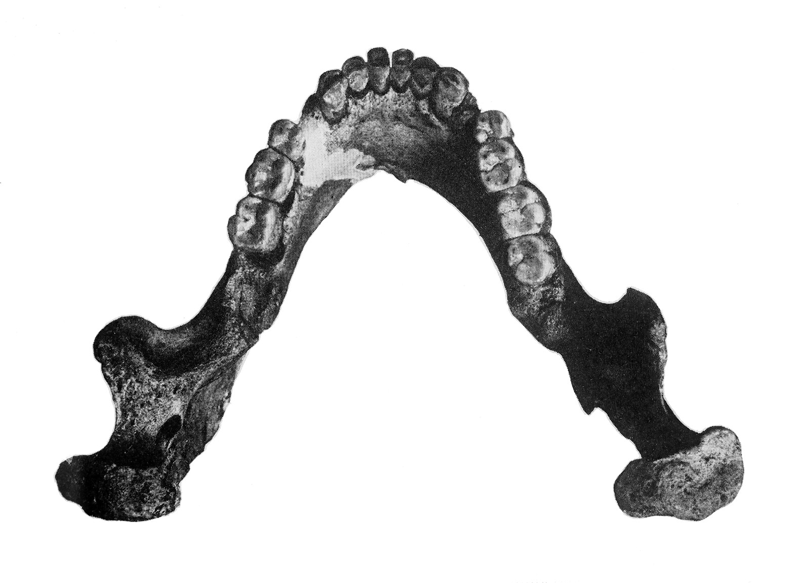 View of the deseased Krapina lower jaw (= mandible J). Wellcome Images Keywords: Prehistory